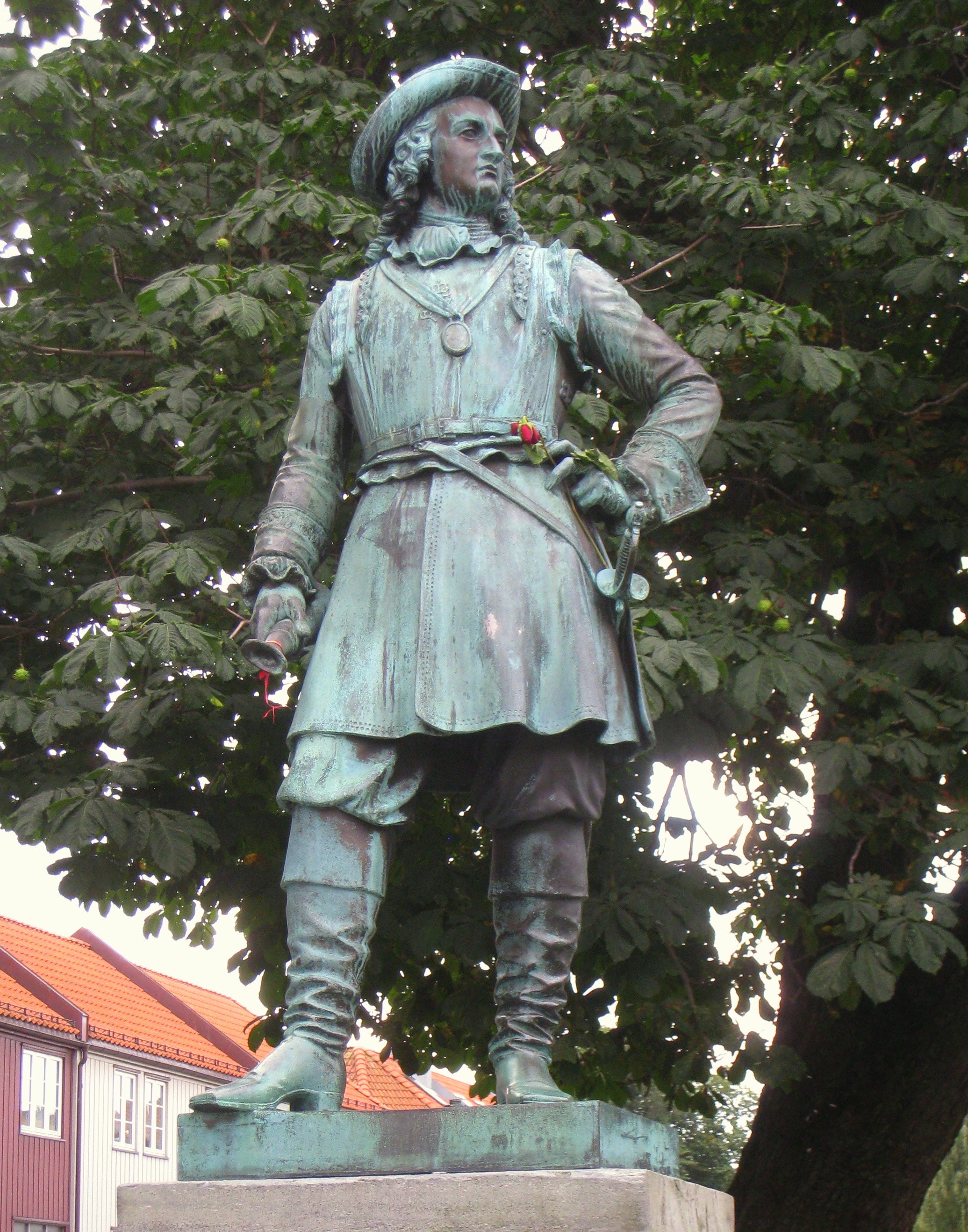 Monument to Peter Wessel Tordenskiold, Trondheim, Norway.